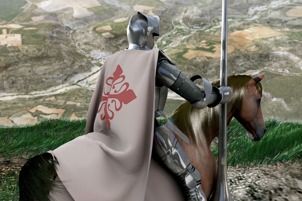 Caballero calatravo